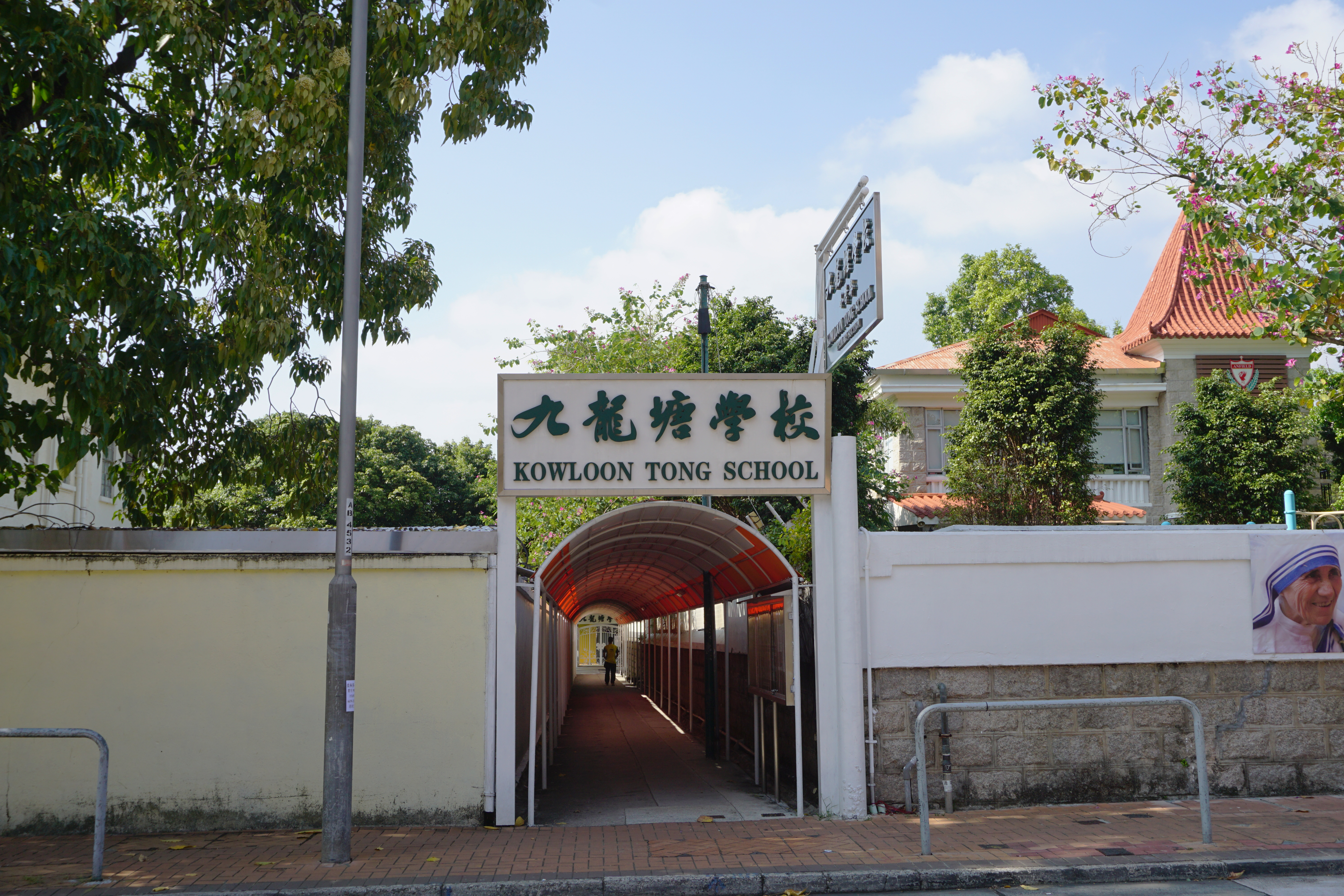 Kowloon Tong School (Primary Section) in Kowloon Tong, Hong Kong.